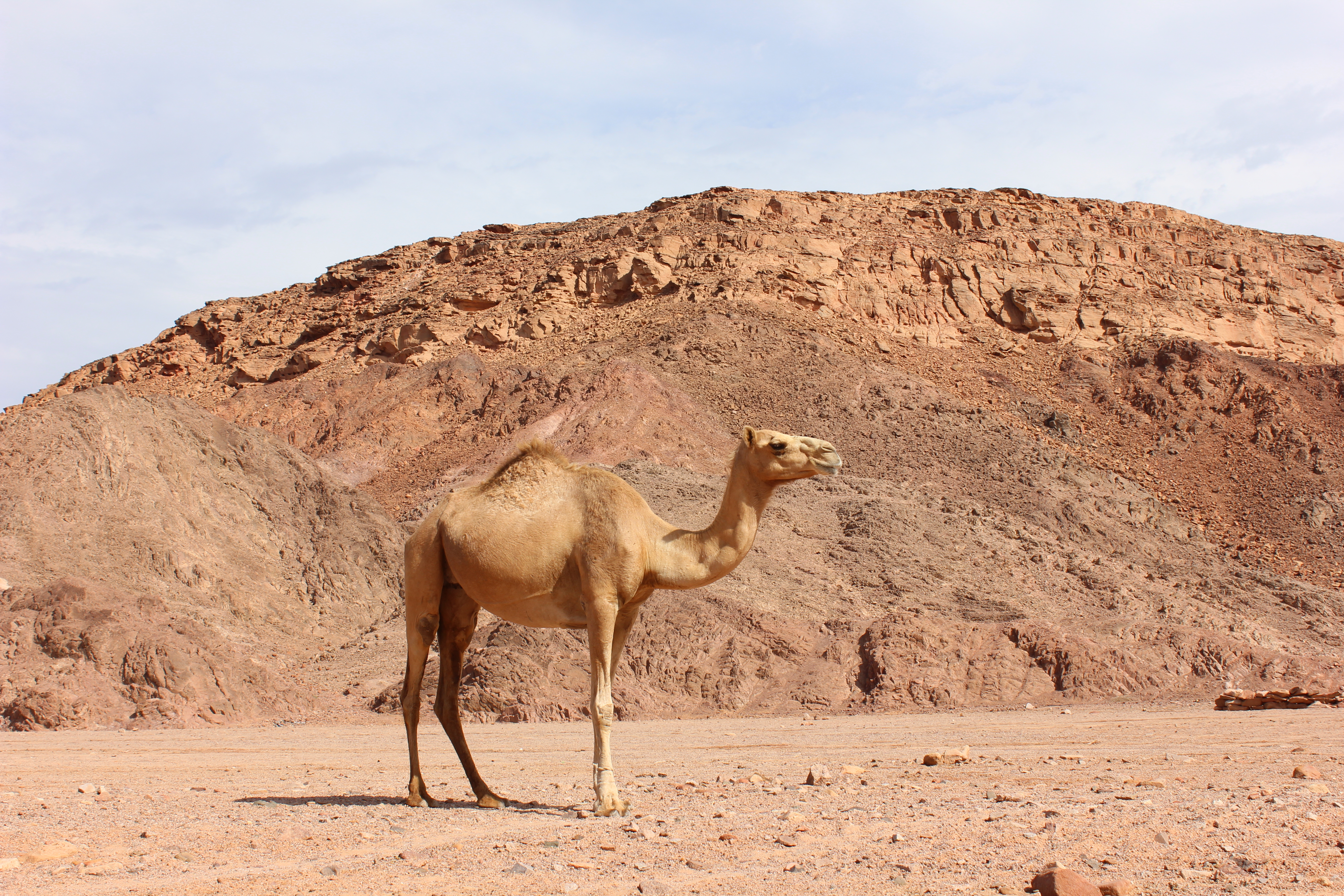 Female Dromedary camel in Disco Tower, Nuweibaa, South Sinai, Egypt.